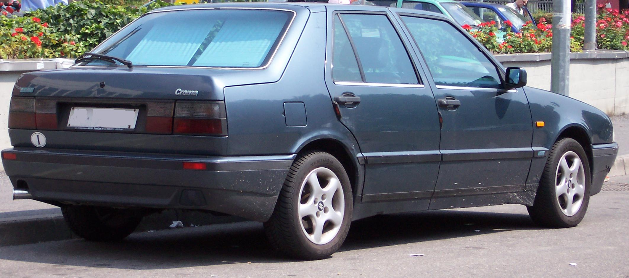 Fiat Croma